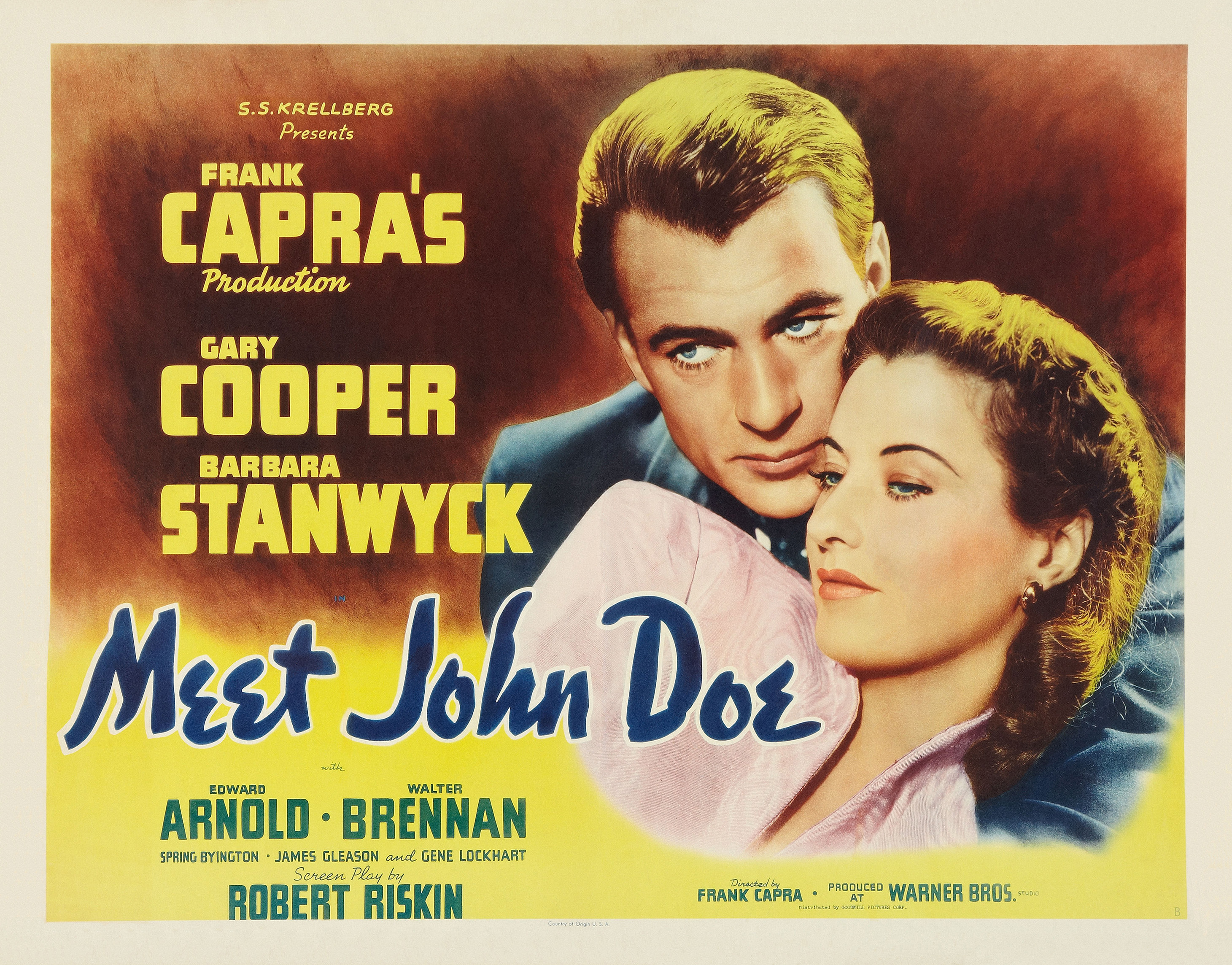 Film poster for Meet John Doe